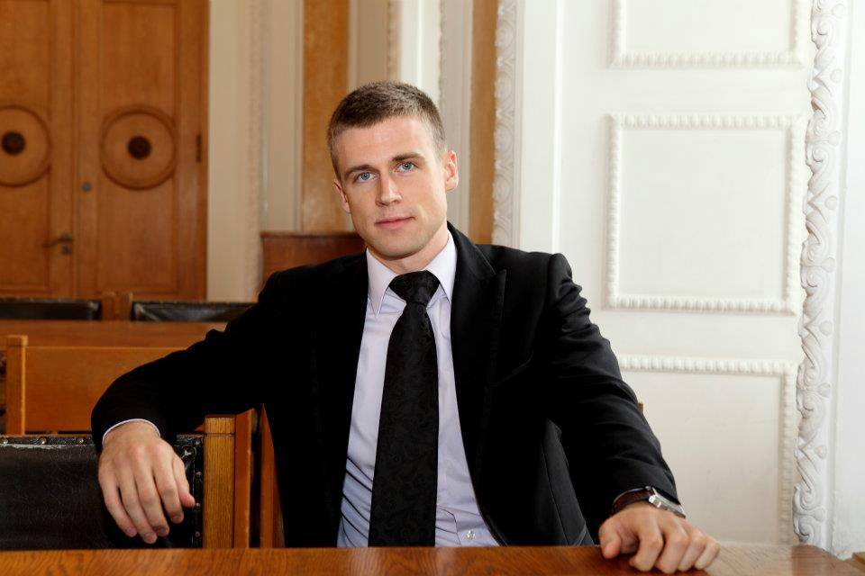 Tarmo Tamm on Eesti päritolu ettevõtja, Sell It OÜ tegevjuht ja Promoset OÜ manager.